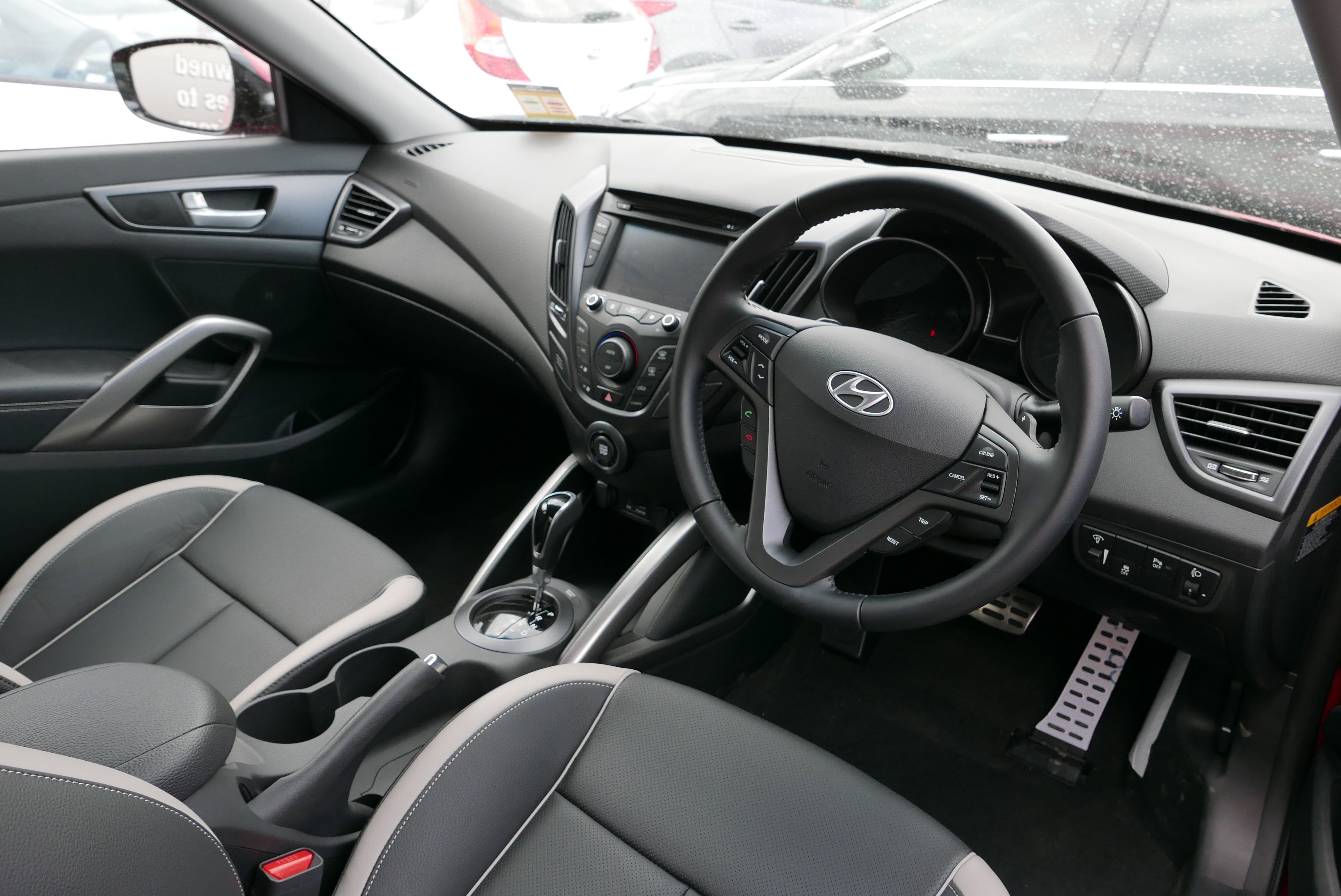 2015 Hyundai Veloster (FS3 MY14) SR Turbo hatchback. Photographed at Yarra Hyundai, Abbotsford, Victoria, Australia. Vehicle registration enquiry resultsJurisdictionVictoriaRegistrationAGT588Chassis codeKMHTC61EMEU228174Engine codeG4FJEU419097Compliance date2015-03Year of manufacture2015